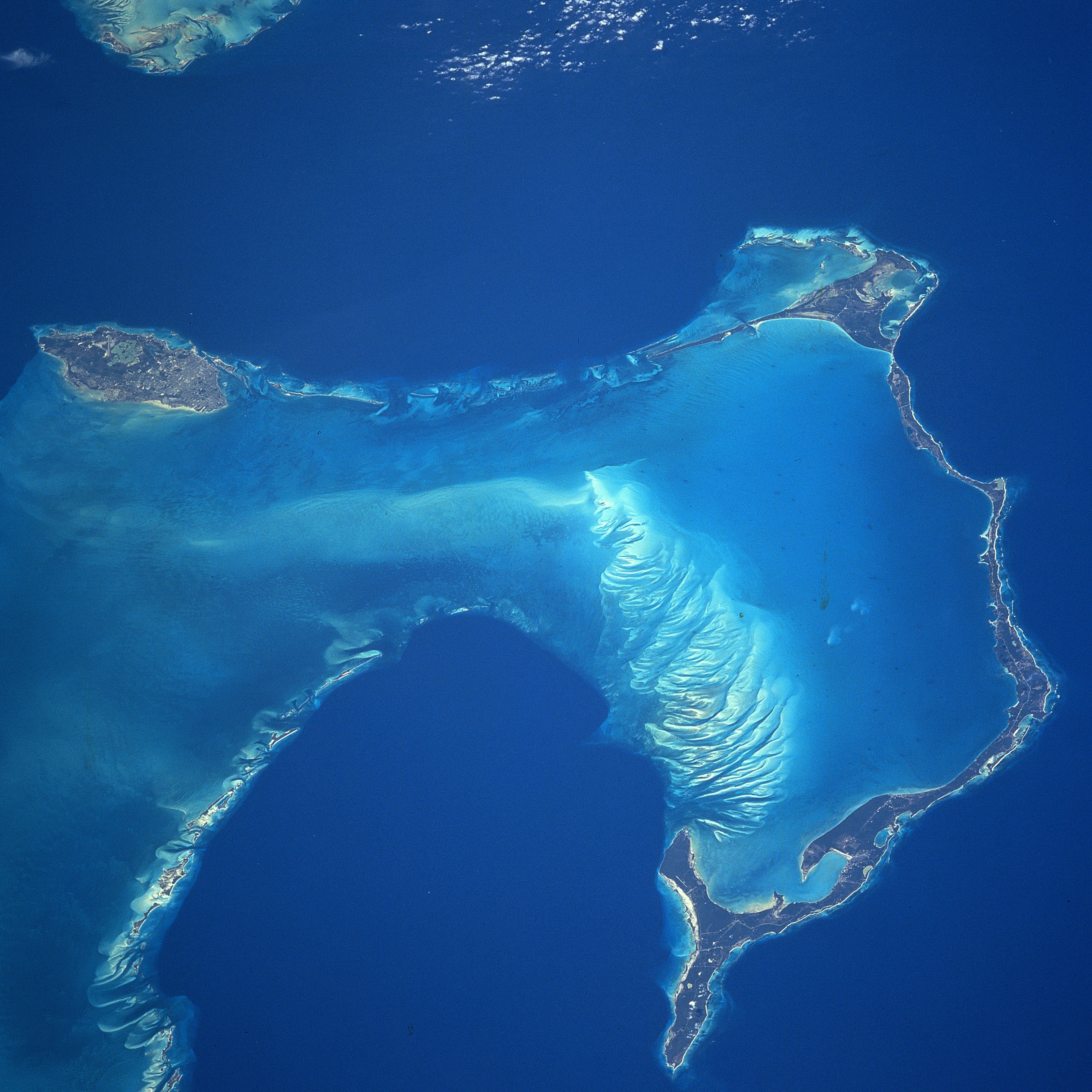 New Providence Island and Eleuthera Island, Bahamas - April 1997 image description here